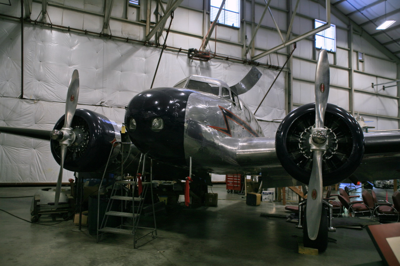 A Lockheed Electra 10A on display in the New England Air Museum. The Lockheed Model 10 Electra was the first all-metal multi-engine plane produced by Lockheed. It carried 10 passengers and a crew of 2 or 3 and had a range of 810 miles. This example, serial no. 1052, was initially a U.S. Navy XR2O-1, delivered in February 1936 for use as a staff transport by the Secretary of the Navy. It has been repainted in the colors of Northwest Airlines, which was the first user of the Electra.